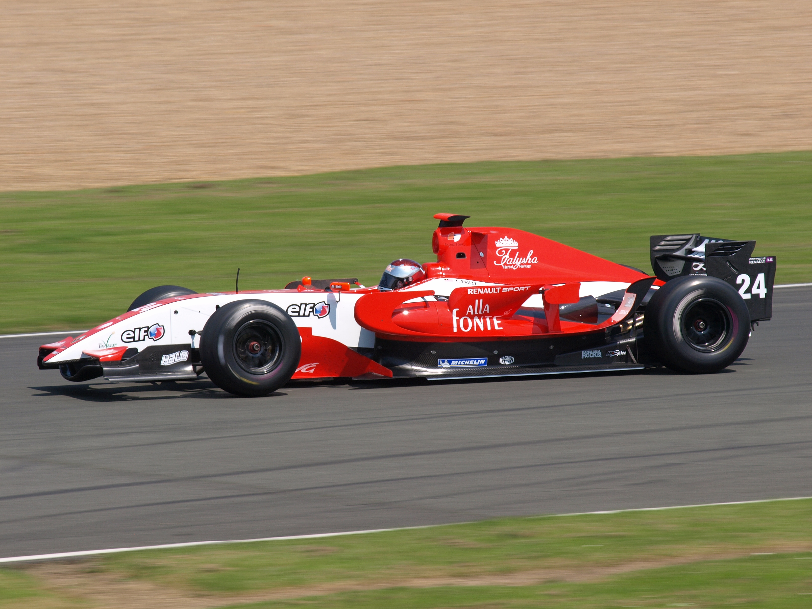 Fairuz Fauzy driving for Fortec Motorsport at the Silverstone round of the 2008 World Series by Renault season.